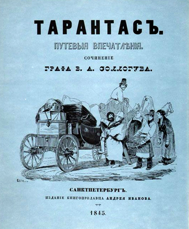 Front page of a 1843 russian edition of "Tarantas" by Vladimir Sollogub (1813-1882).